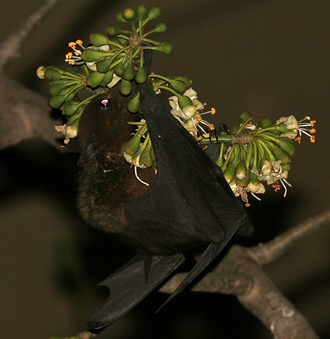 Indian flying fox Pteropus giganteus in Kolkata, West Bengal, India.